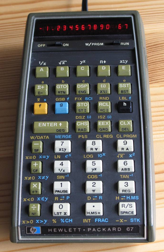 HP-67 powered on with the card slots visible on the right-hand side. Note the key functions printed under the keys